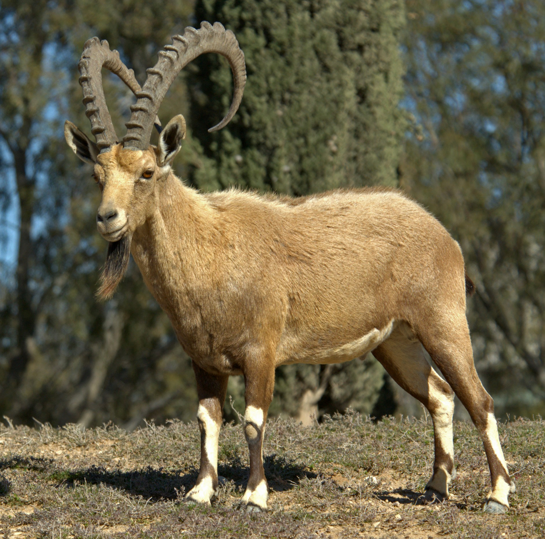 Capra nubiana in Israel